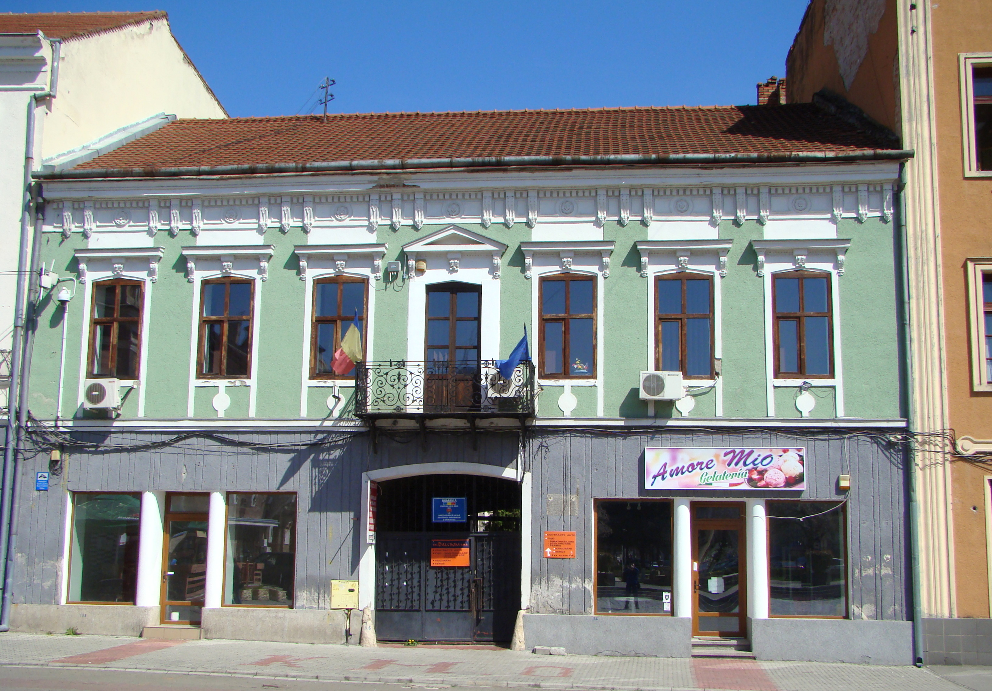 Former Dacia Bank in Deva, Hunedoara county, Romania